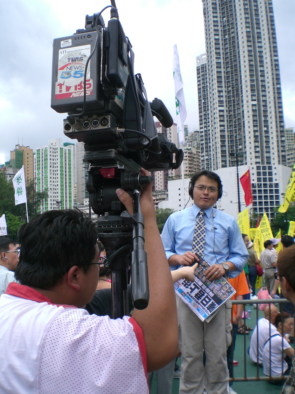 TVBS News Department reporter.